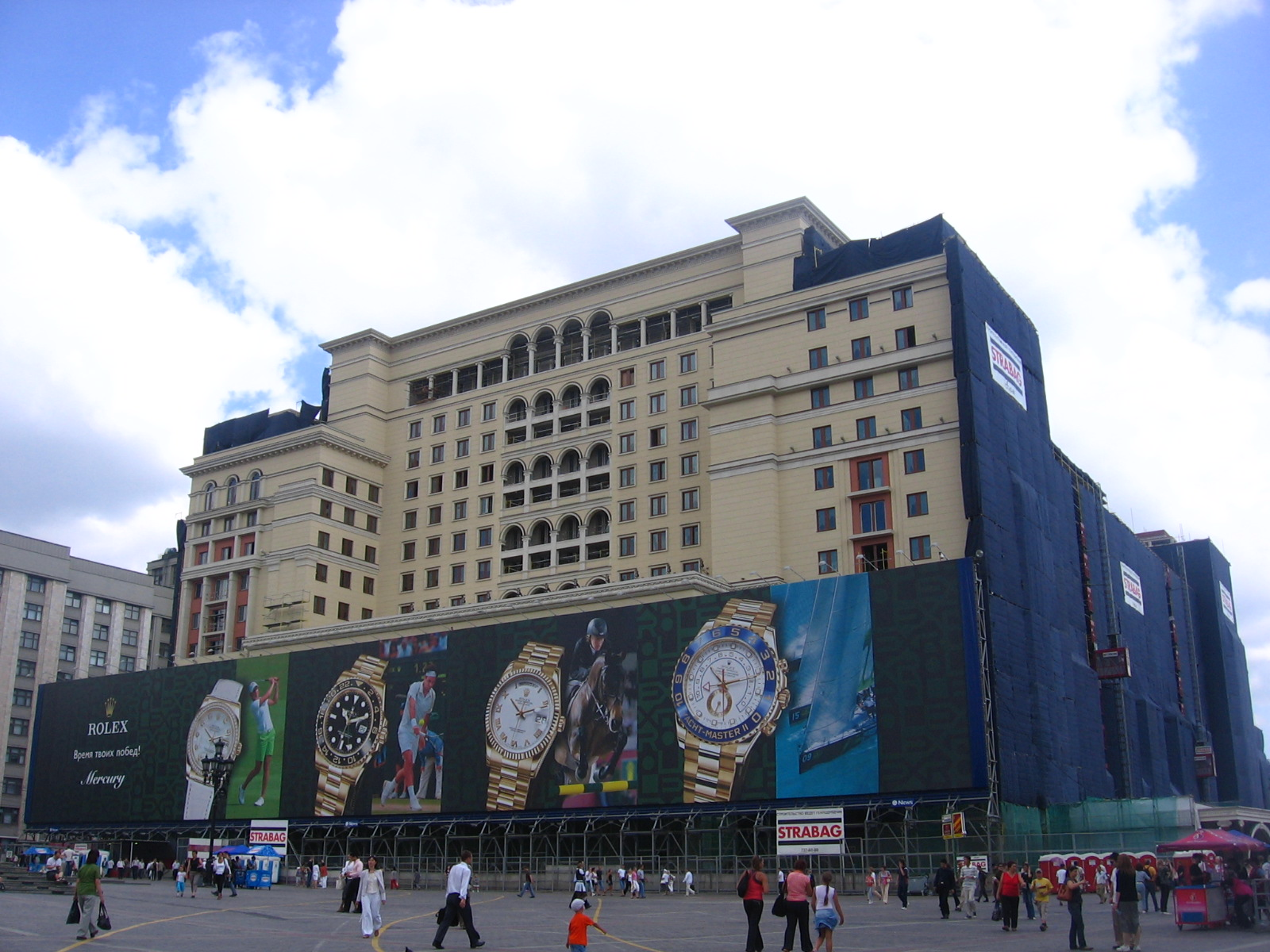 Гостиница незадолго до разбора